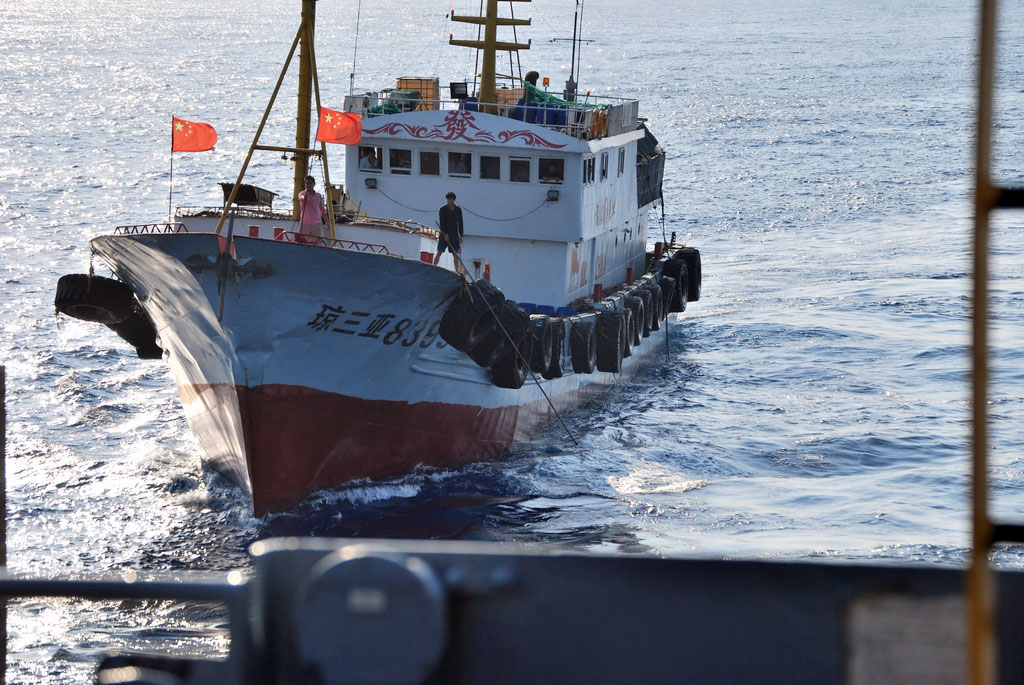 090308-N-0000X-004 SOUTH CHINA SEA (March 8, 2009) A crewmember on a Chinese trawler uses a grapple hook in an apparent attempt to snag the towed acoustic array of the military Sealift Command ocean surveillance ship USNS Impeccable (T-AGOS-23). Impeccable was conducting routine survey operations in international waters 75 miles south of Hainan Island when it was harassed by five Chinese vessels. (U.S. Navy photo/Released)